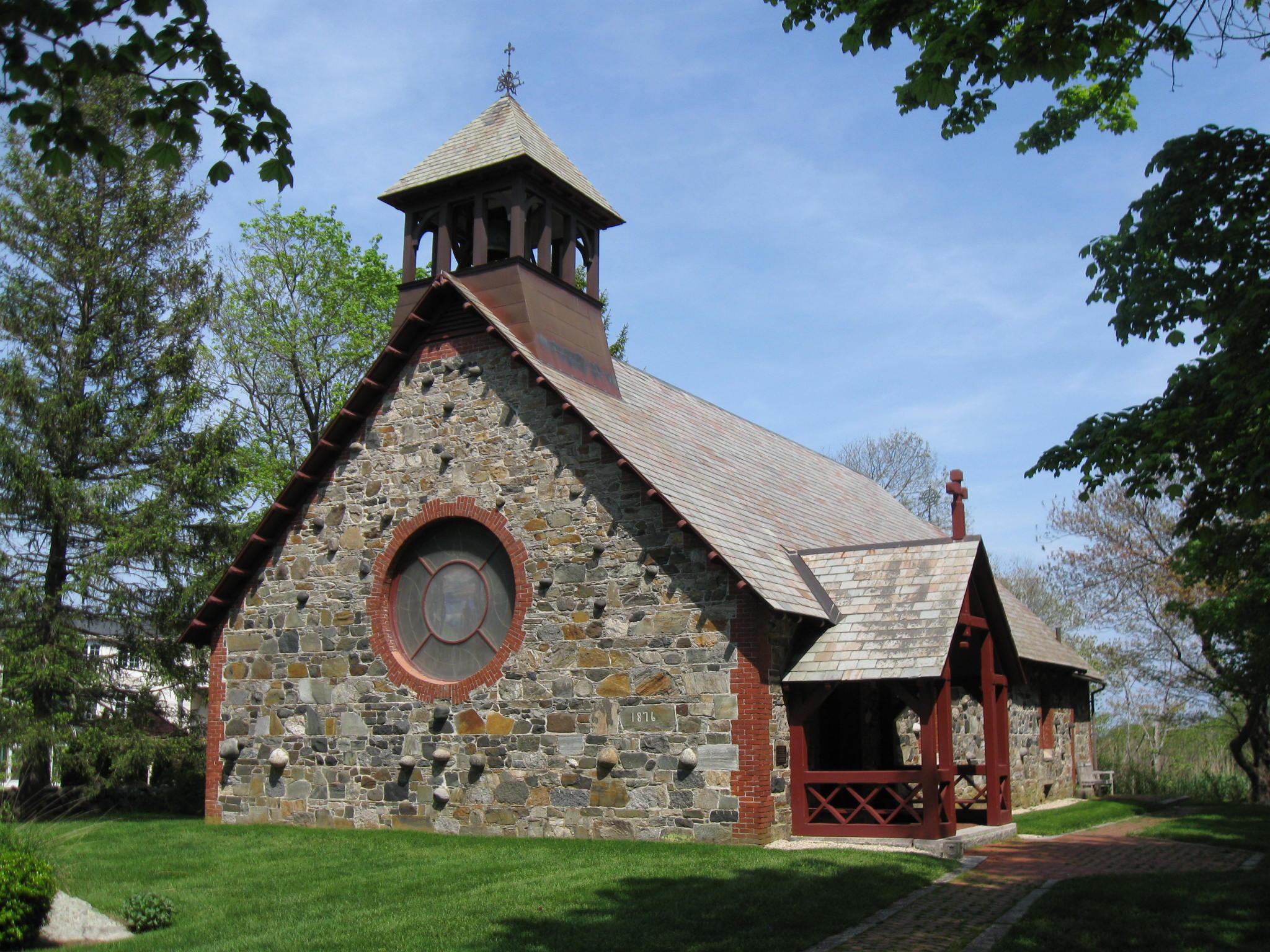 St. Andrew's-by-the-Sea chapel, Rye, New Hampshire. Photo by Ken Gallager, May 30, 2011.